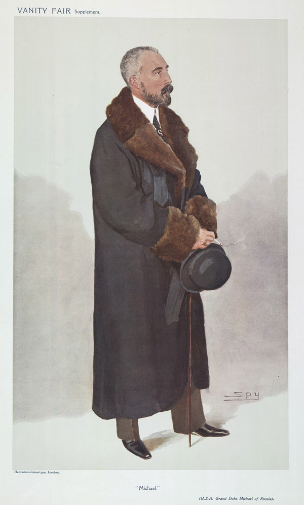 Men of the Day No.1102: Caricature of Grand Duke Michael Michaelovitch of Russia. Caption reads: "Michael"